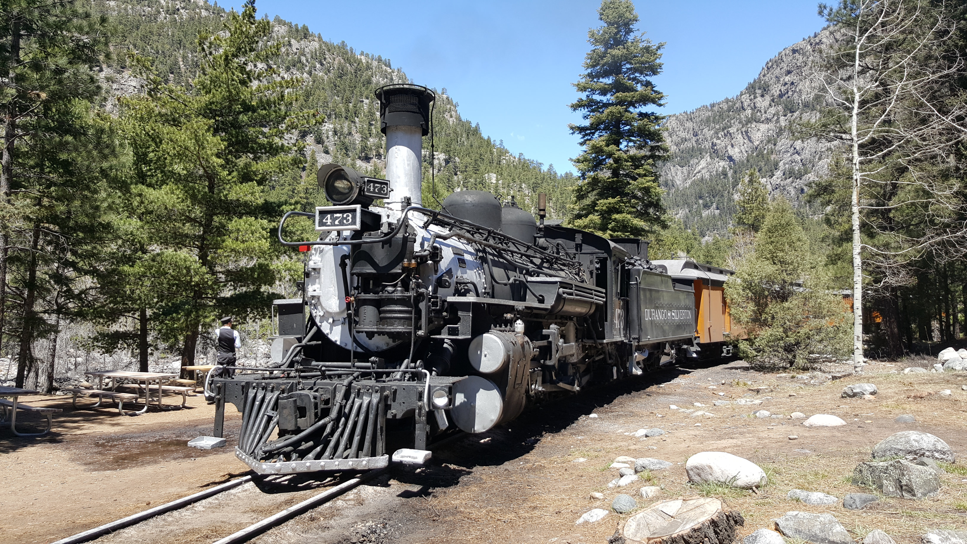 On a May 4th, 2016 run to Cascade Canyon, #473 waits to head back to Durango.